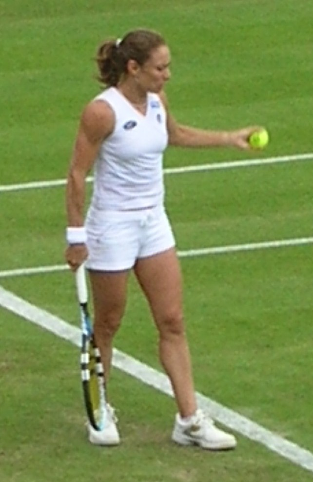 Tennis player Anna Smashnova prepares to serve against Maria Sharapova at Wimbledon 2006.